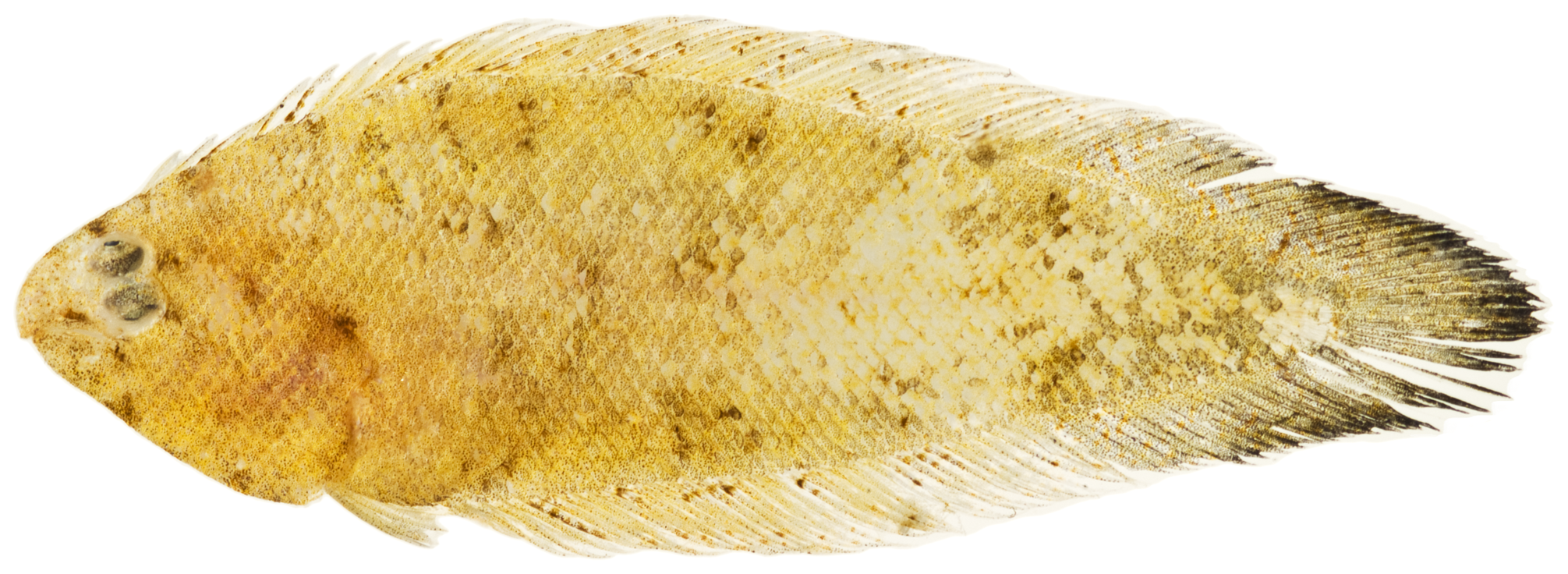 Symphurus arawak Robins & Randall, 1965—Caribbean tonguefish, 30.7 mm SL. Photo by JT Williams.